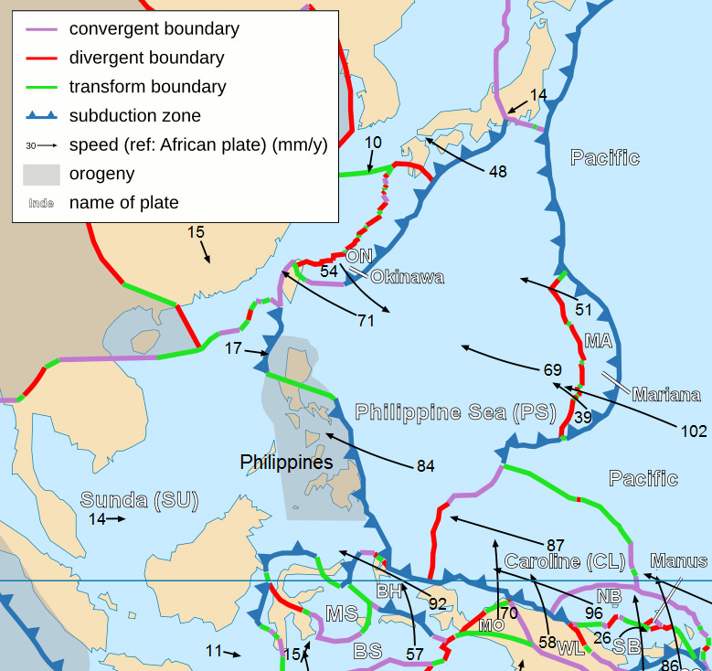 Detailed map in English showing the tectonic plates with their movement vectors near the Philippines.